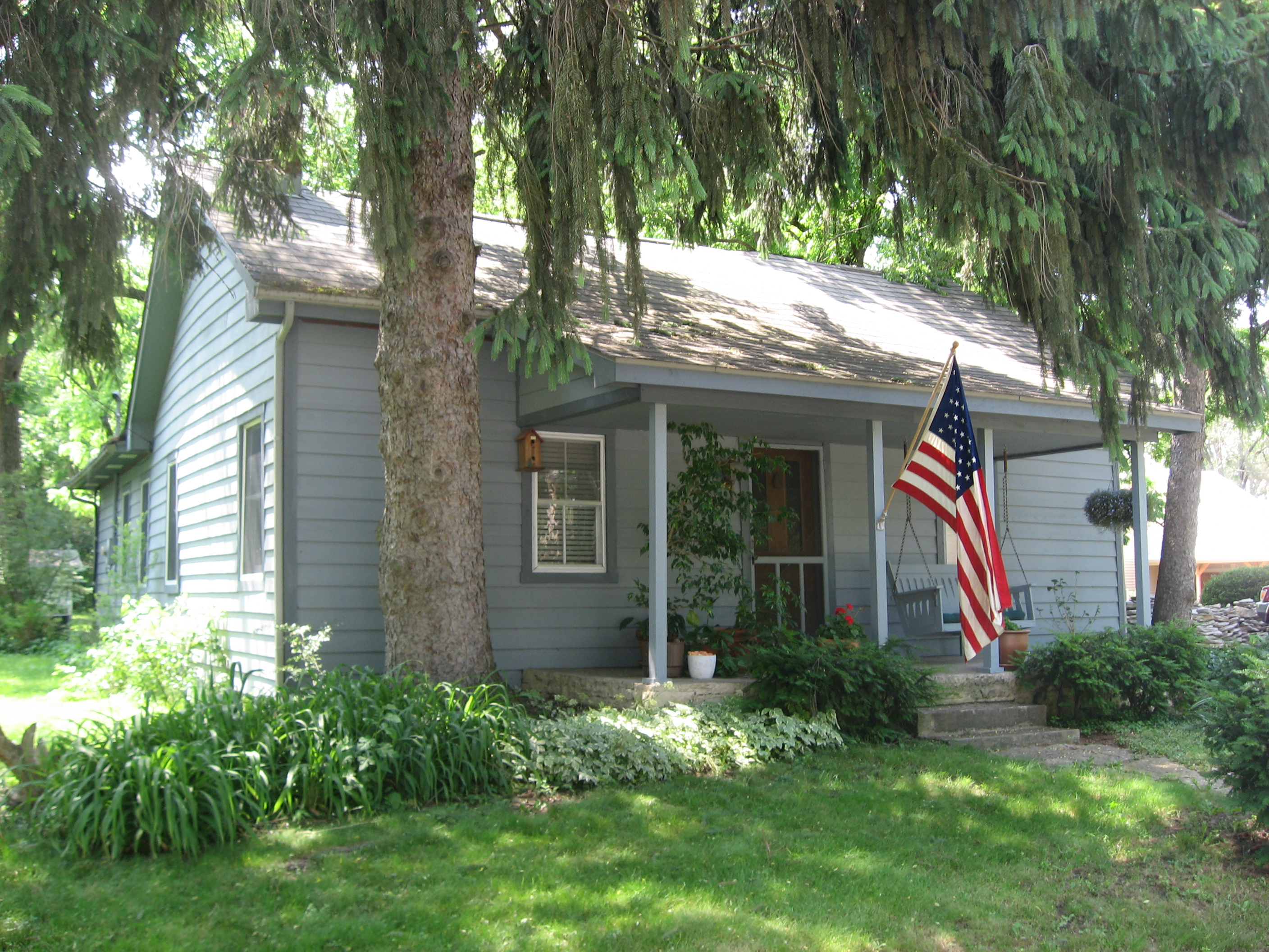 Front of the Brelsford-Seese House, located at 129 S. Riverview Street in Dublin, Ohio, United States. Built circa 1856, it is listed on the National Register of Historic Places.